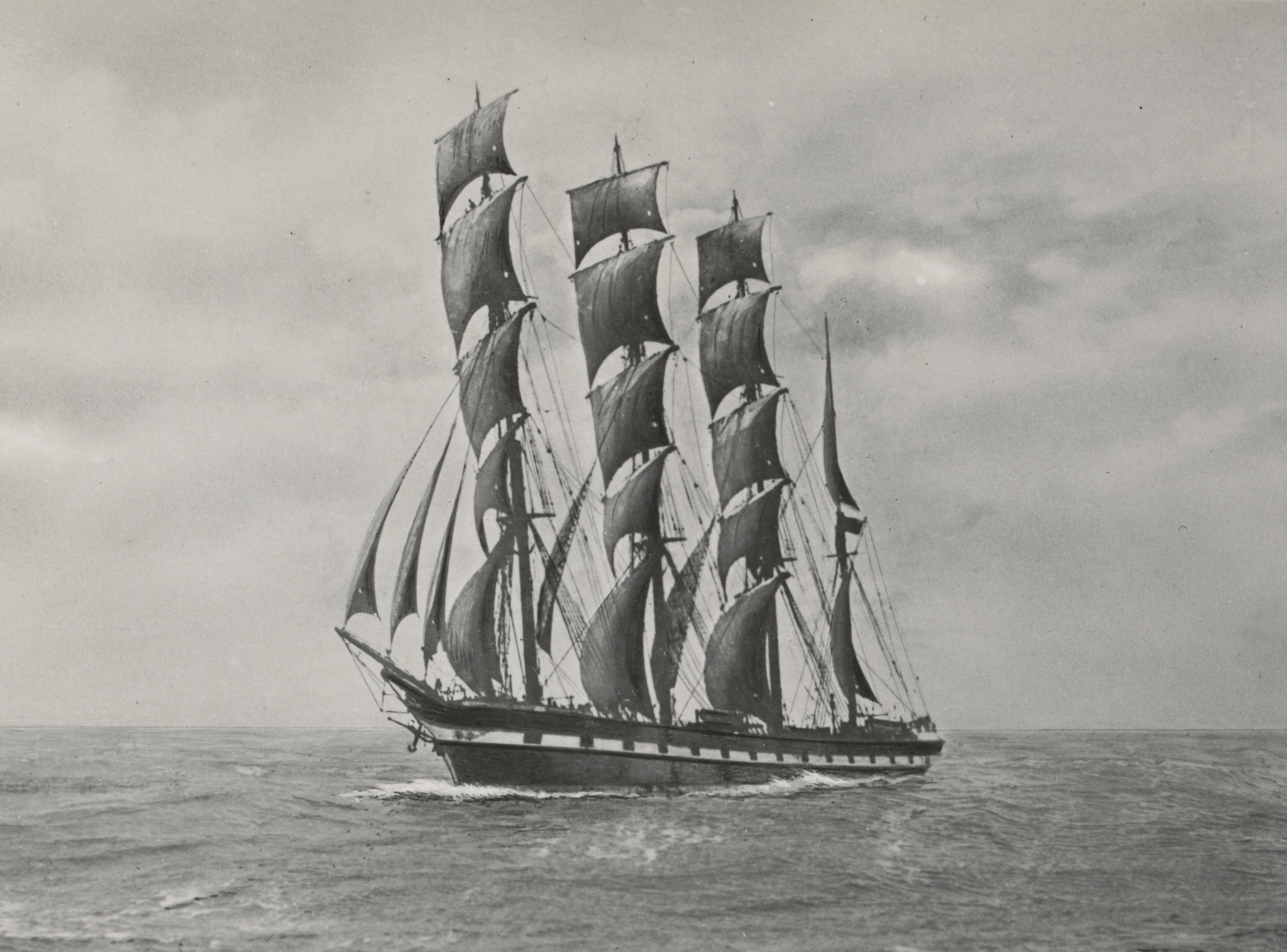 Original caption: “Loch Torridon.”